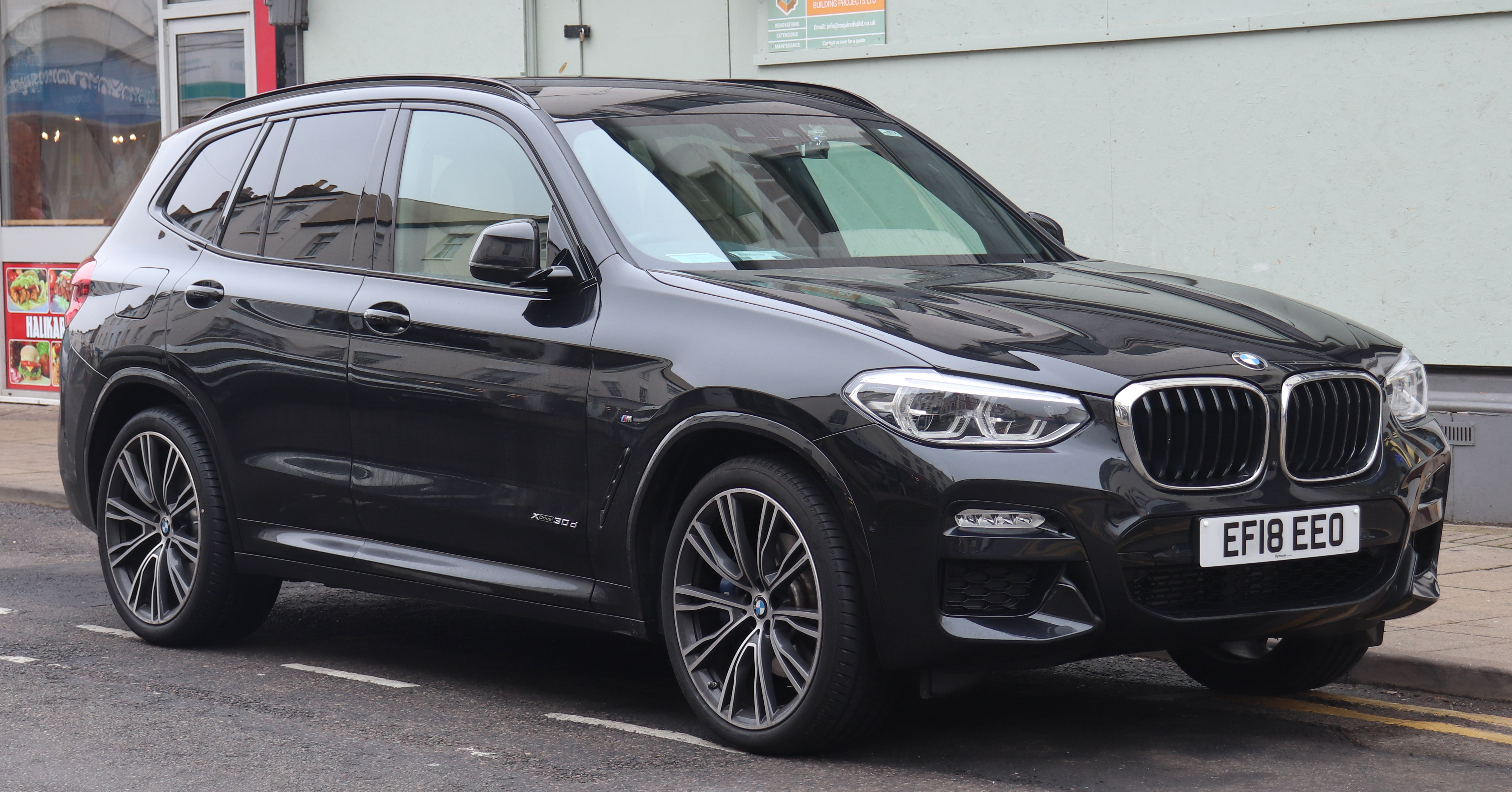 2018 BMW X3 xDrive30d M Sport Automatic 3.0 Front Taken in Leamington Spa